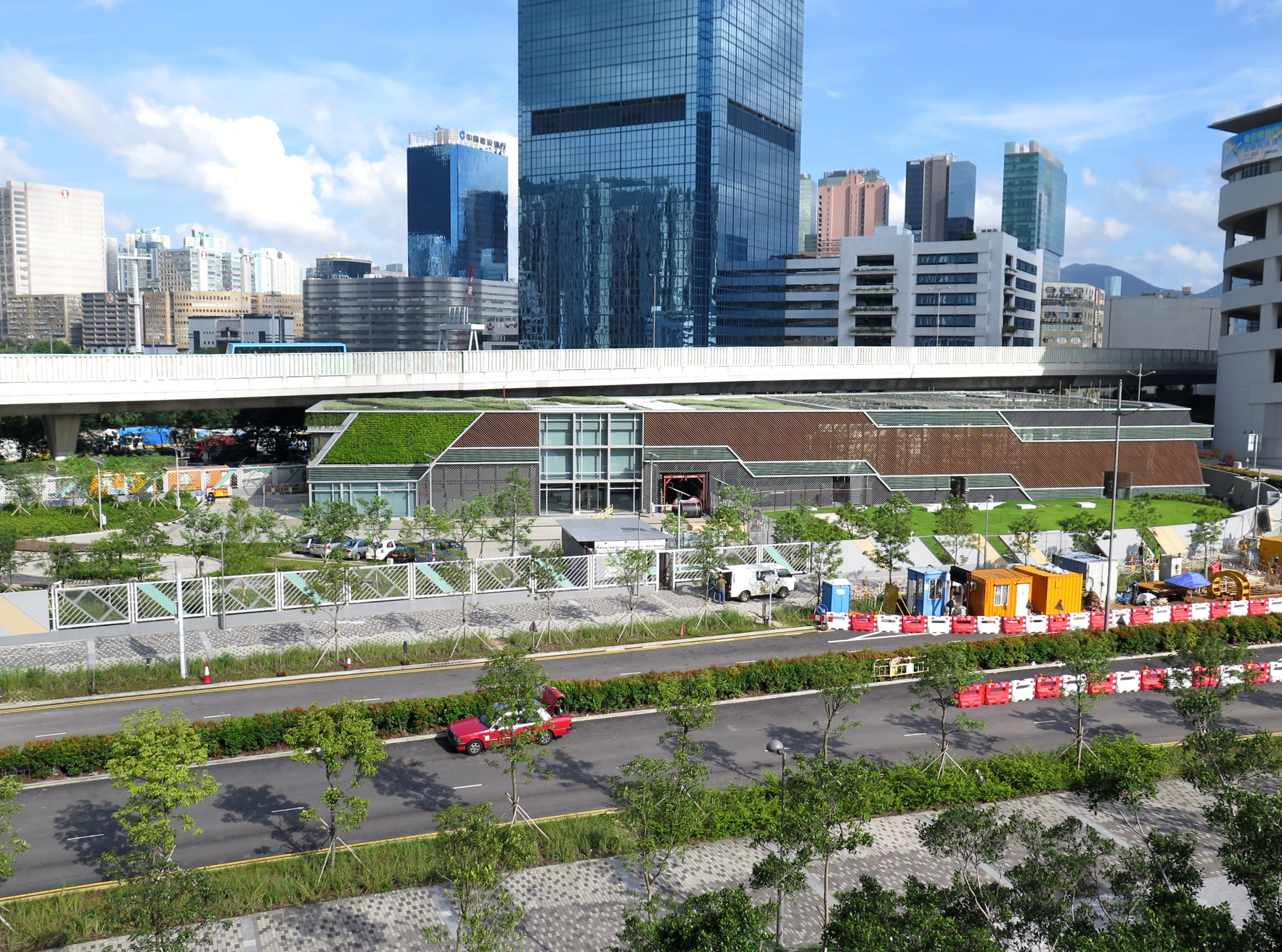 Cooling System at Kai Tak Development